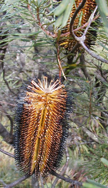 Banksia cunninghamii - Lyrebird Dell Walk, near Leura photo - Cas Liber - April 2004